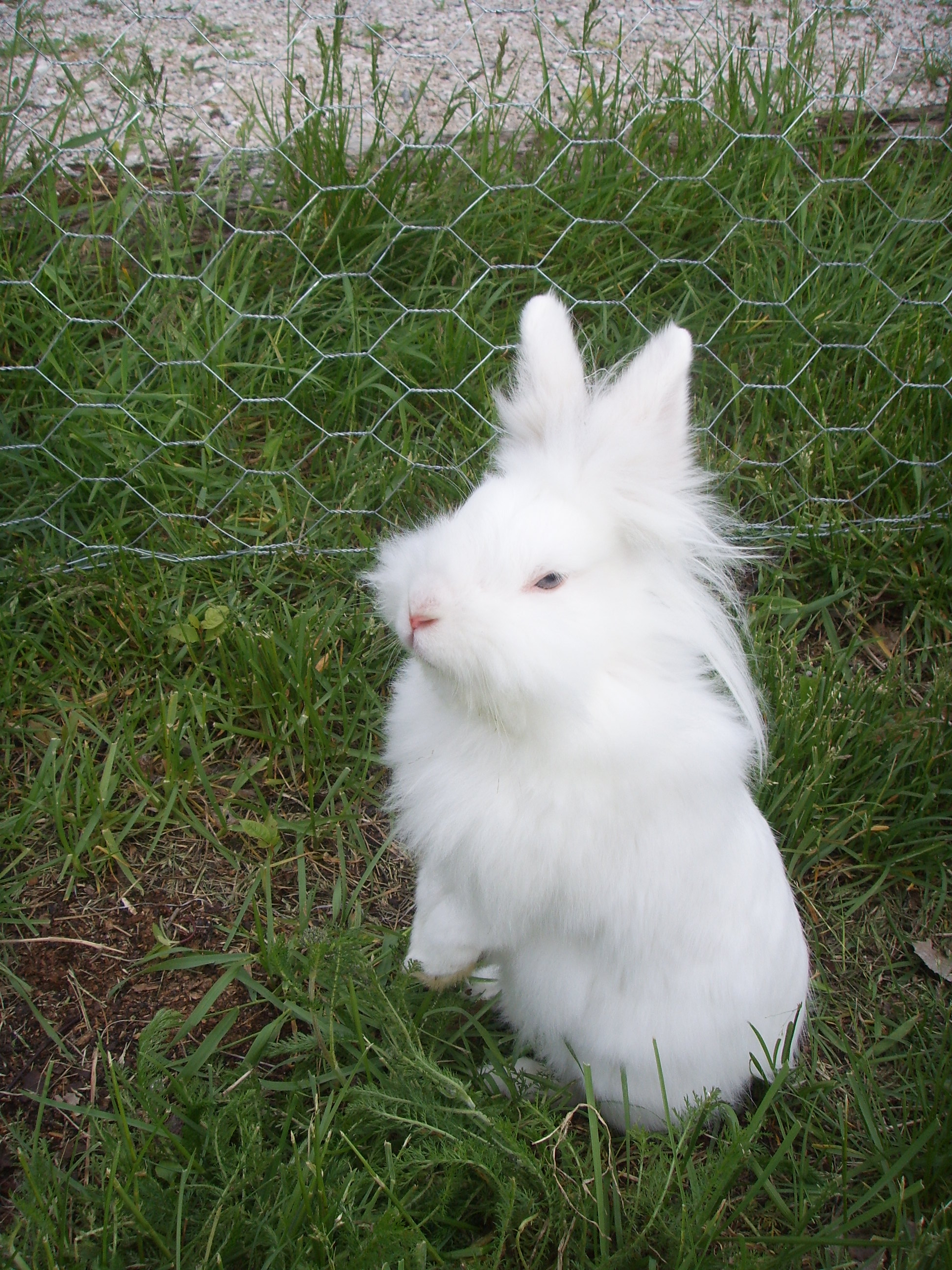 Pissed Off Raised Rabbit